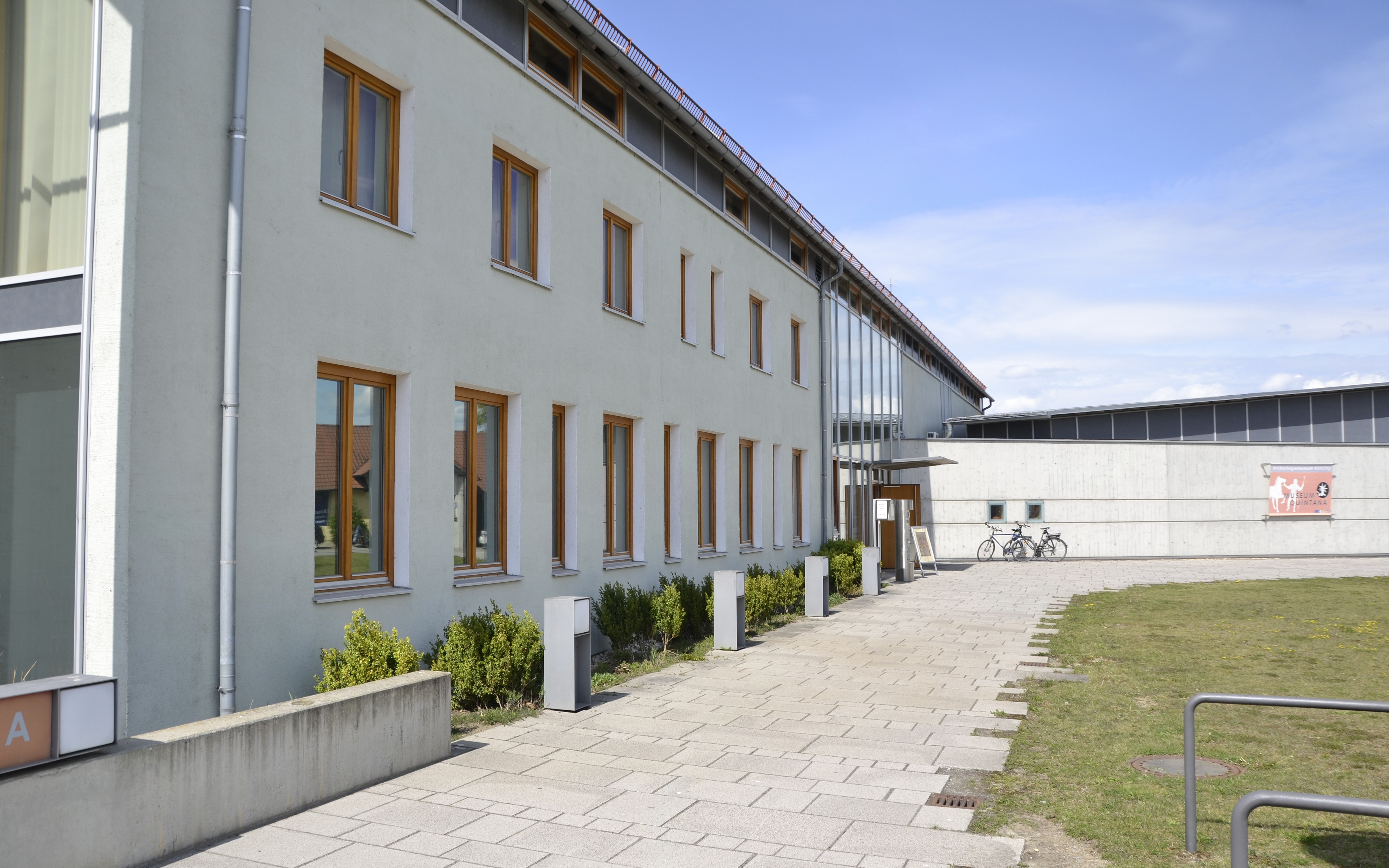 The "Museum Quintana" in Künzing, Bavaria, Germany.